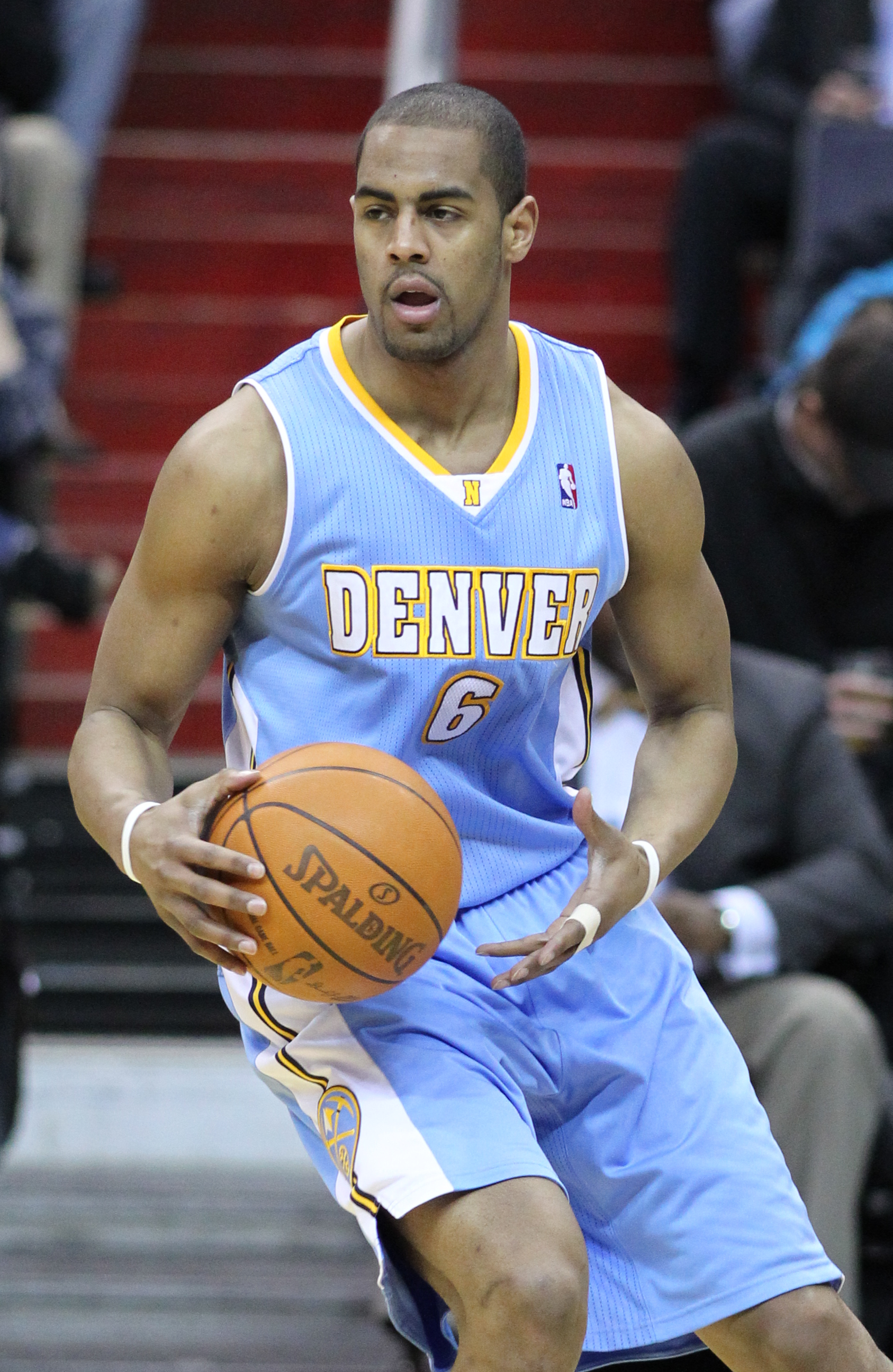 Washington Wizards v/s Denver Nuggets January 25, 2011